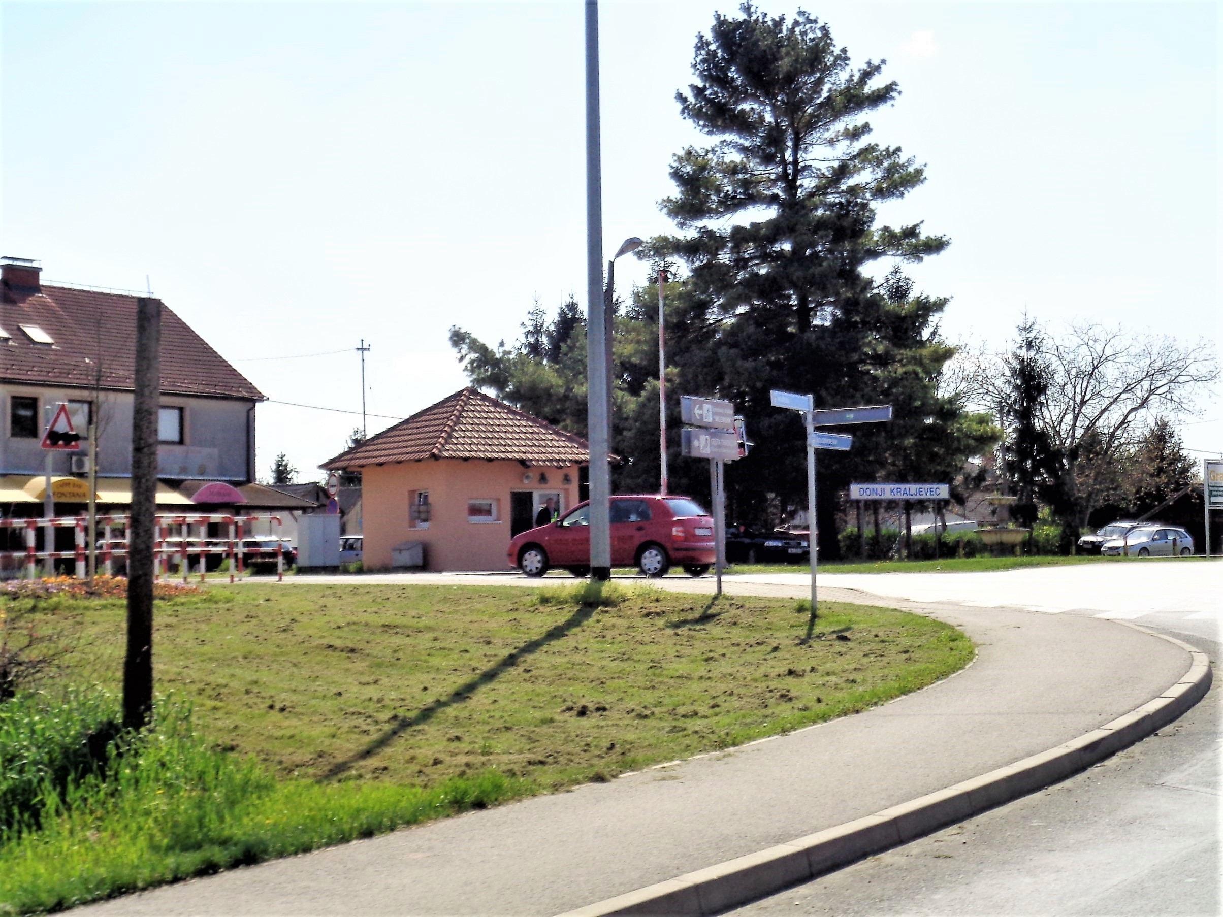 Donji Kraljevec village, Medjimurje County, Croatia - road to railway station